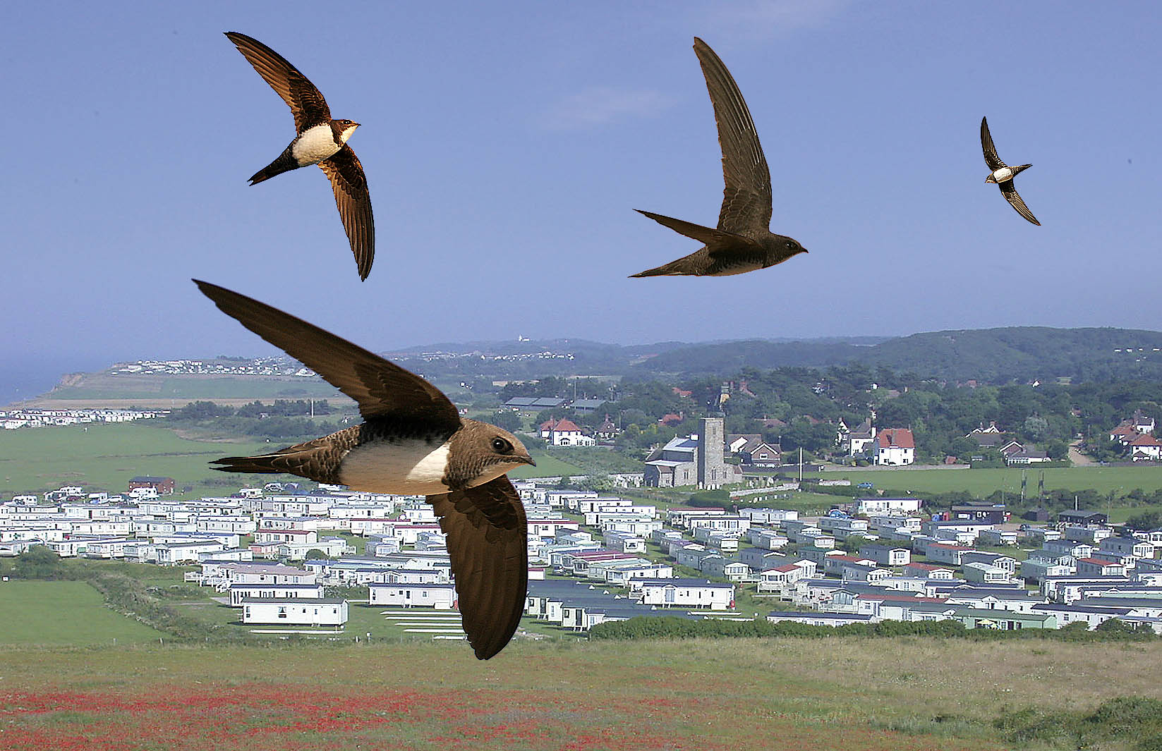 Alpine Swift from the Crossley ID Guide Britain and Ireland